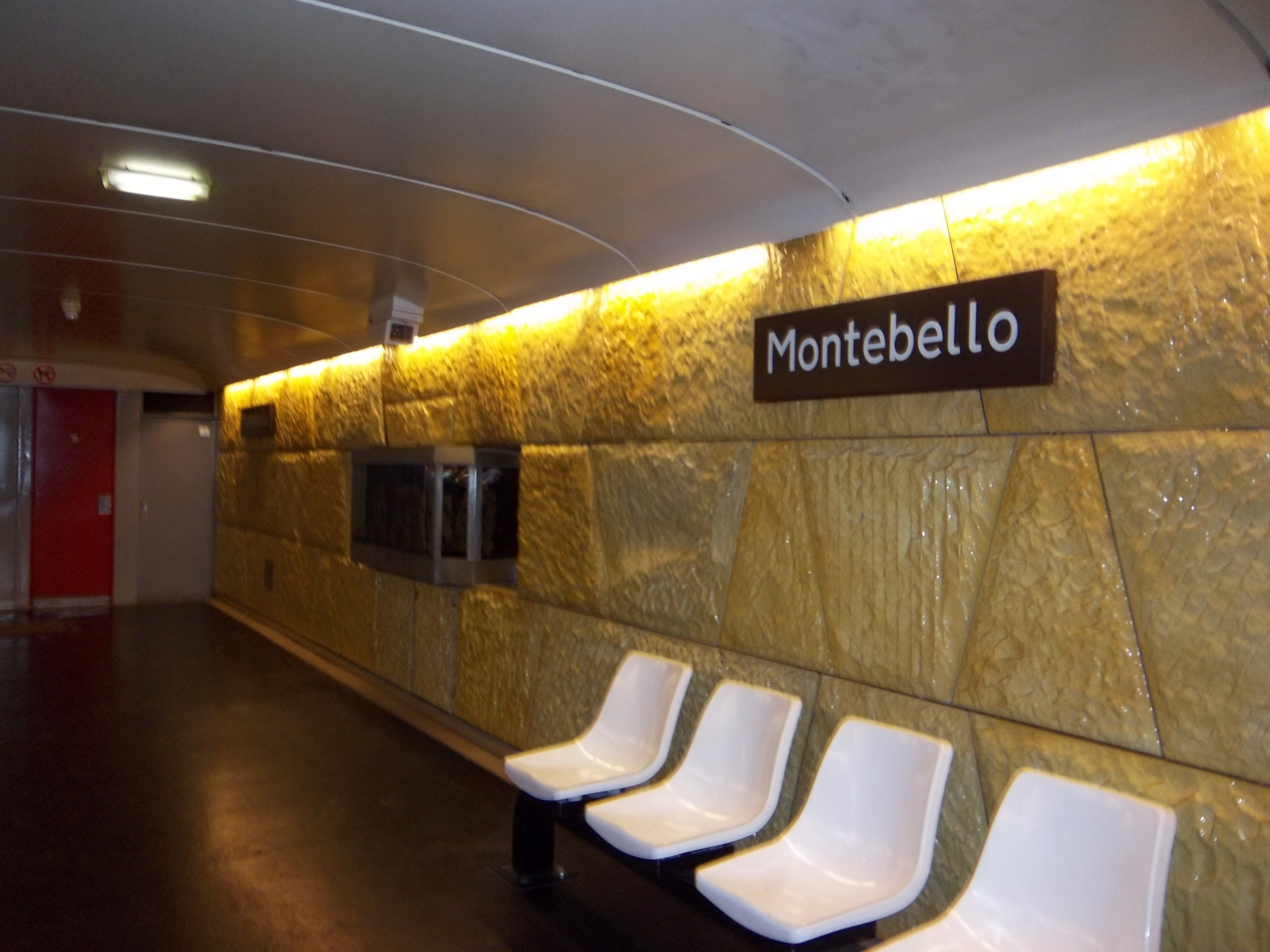 Subway station of Montebello in Lille